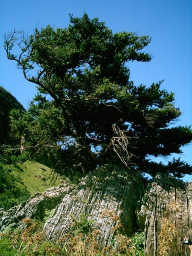 Podocarpus latifolius taken on 16 January 2007 at Injasuthi in the KwaZulu-Natal Drakensberg, South Africa.